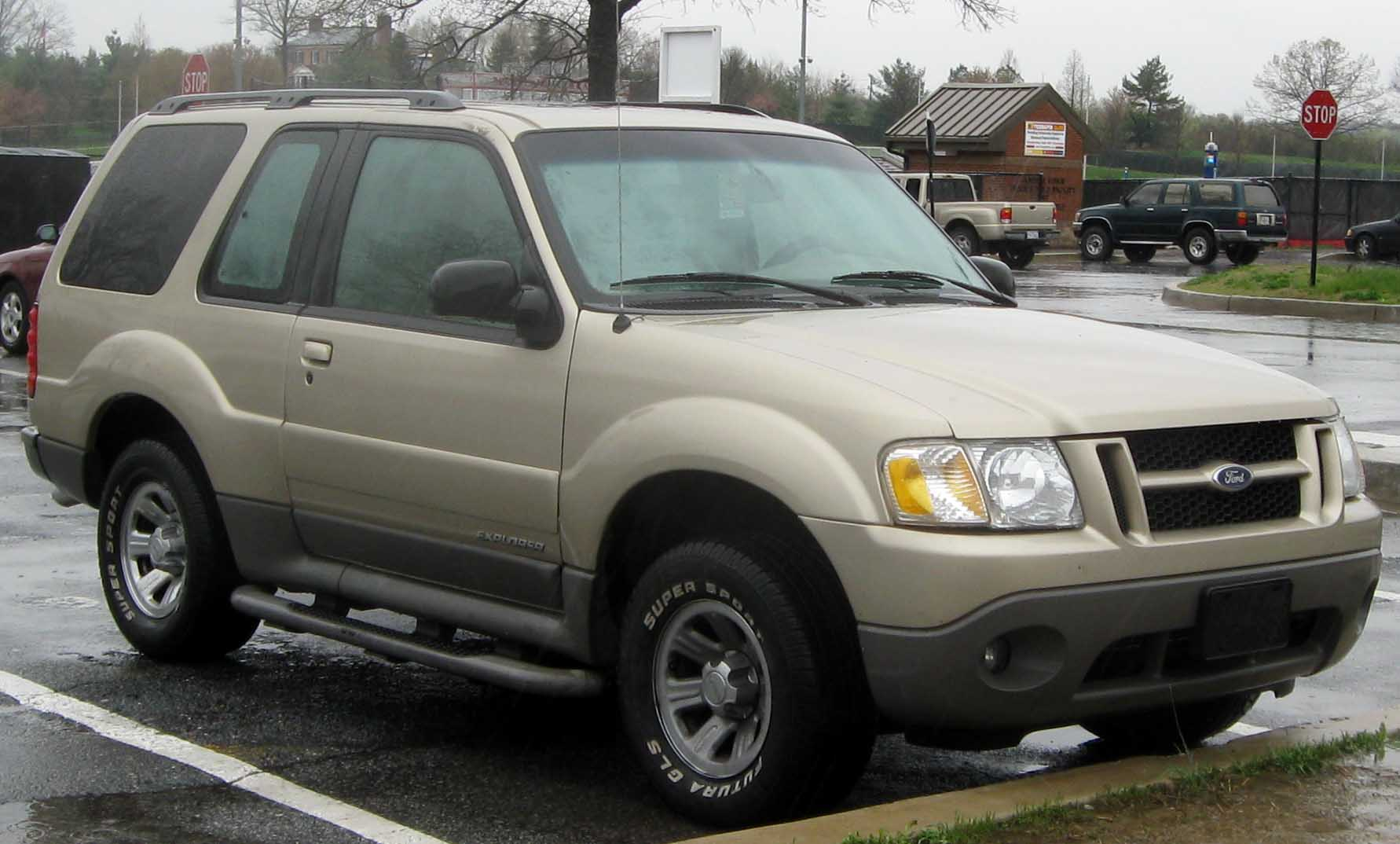 2001-2003 Ford Explorer Sport photographed in College Park, Maryland, USA.